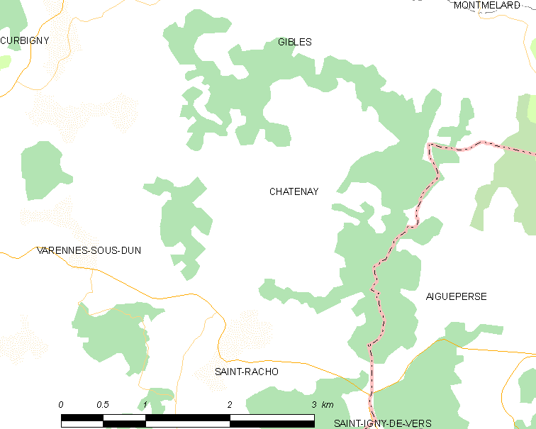 Map of French municipality